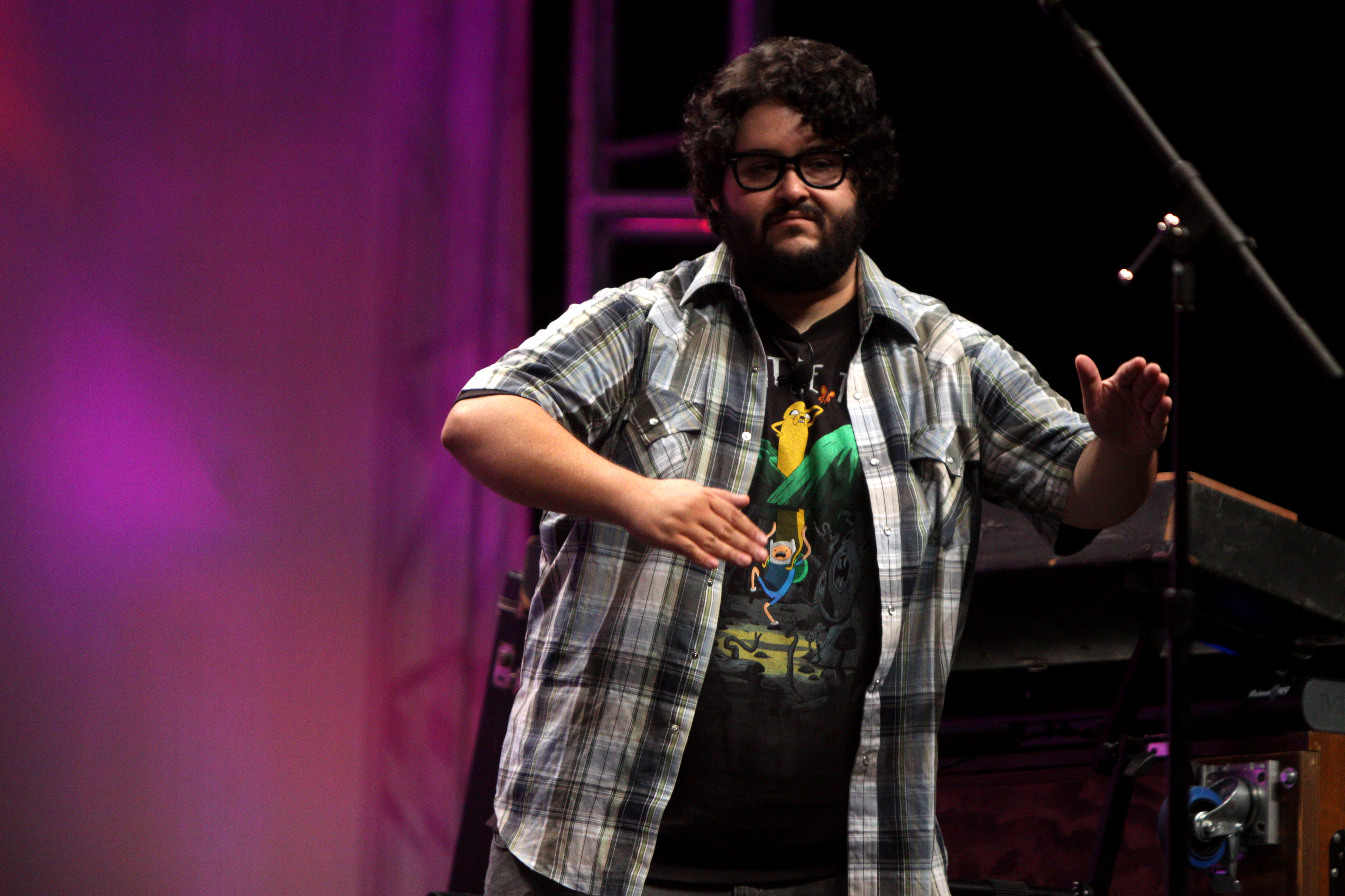 Steve Zaragoza speaking at VidCon 2012 at the Anaheim Convention Center in Anaheim, California.